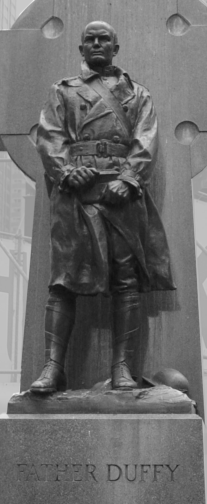 Image of monument to Francis P. Duffy, located in a small wedge of park at Times Square, New York City, where theatergoers gather to purchase discount theater tickets. Text on the obverse of this monument: LIUEUTENANT COLONEL FRANCIS P. DUFFY MAY 2 1871 - JUNE 26 1932 CATHOLIC PRIEST CHAPLAIN 165TH U S INFANTRY OLD 69TH N Y A LIFE OF SERVICE FOR GOD AND COUNTRY SPANISH AMERICAN WAR NEW YORK NATIONAL GUARD MEXICAN BORDER WORLD WAR DISTINGUISHED SERVICE CROSS DISTINGUISHED SERVICE MEDAL CONSPICUOUS SERVICE CROSS LEGION D'HONNEUR CROIX DE GUERRE Reduced original image Image and image processing by User:Leonard G. Image skewed to correct camera viewpoint distortion. Distractive background decolorized by selecting only red channel and slightly blurred and statue slightly sharpened. Note that the cross and sculpture are shown in color, only the background has been forced to monochrome.